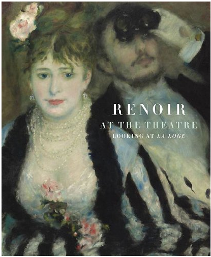 Book cover for Renoir at the Theatre Looking at La Loge by Ernst Vegelin.